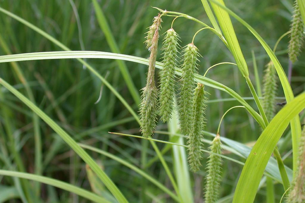 Carex dimorpholepis(Cyperaceae) Japanese name:Azenaruko Date;2004,05,19;Tanabe city, Wakayama prefecture, Japan Author;Keisotyo